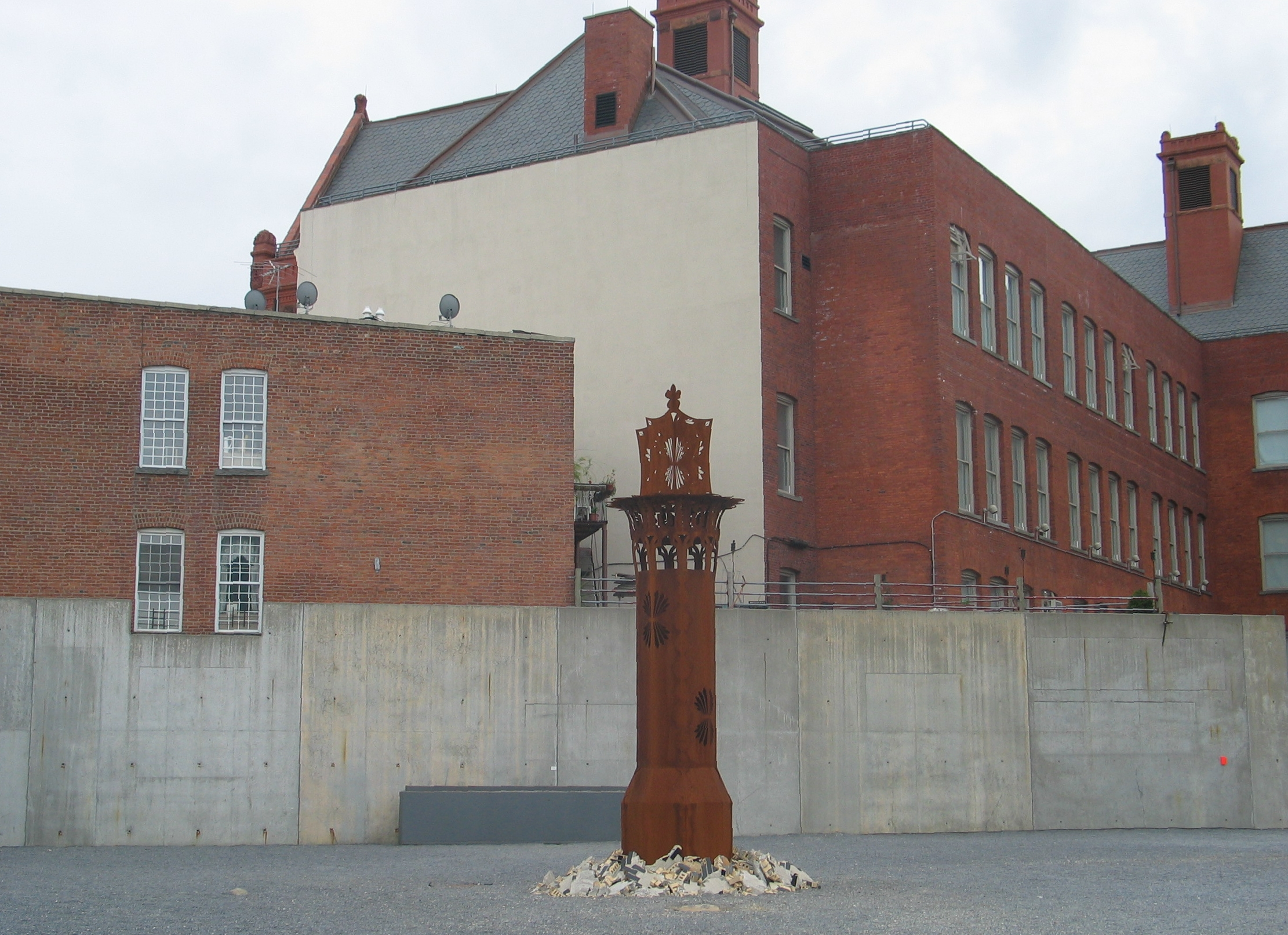 P.S.1 Contemporary Art Center, an affiliate of The Museum of Modern Art (MOMA), New York.